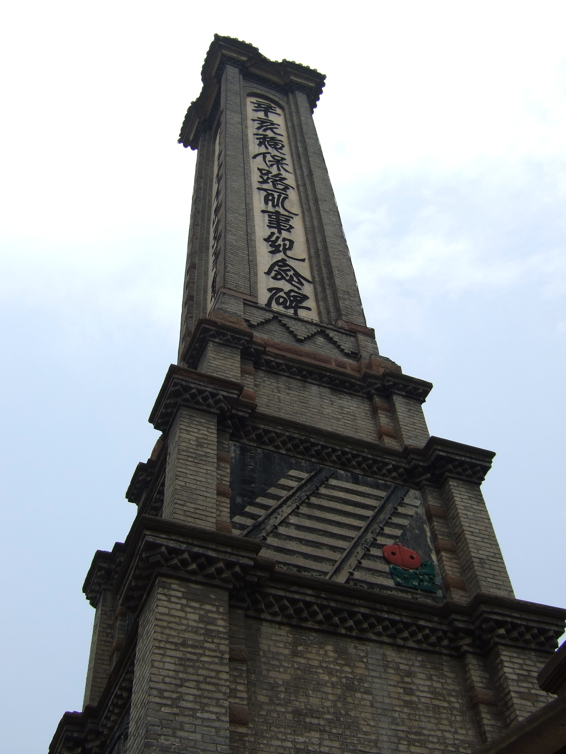 Monument to remember the martyrs protecting the railway projects, stele located at People's Park in Chengdu